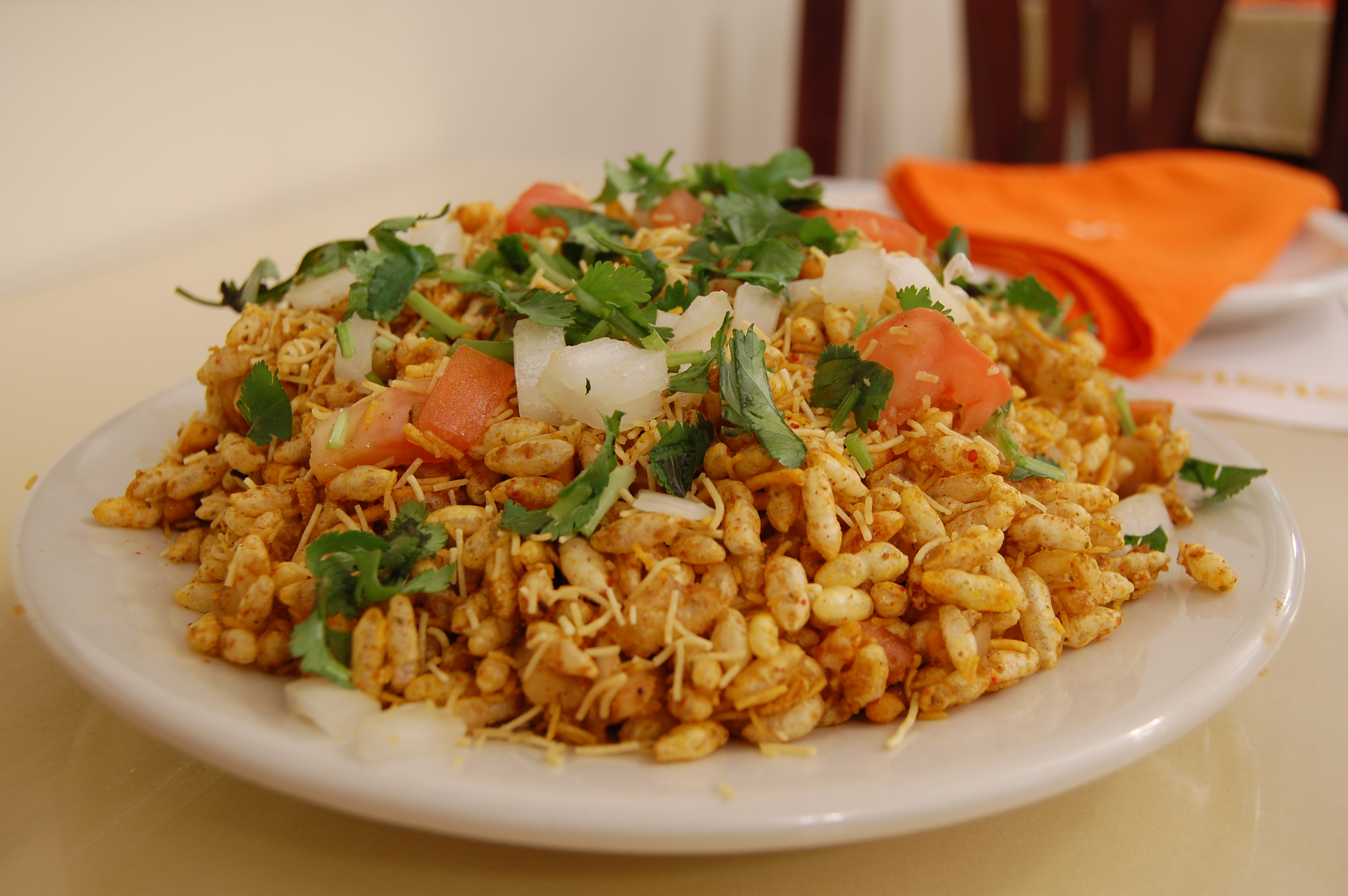 Bhelpuri, a variety of chaat in Indian cuisine